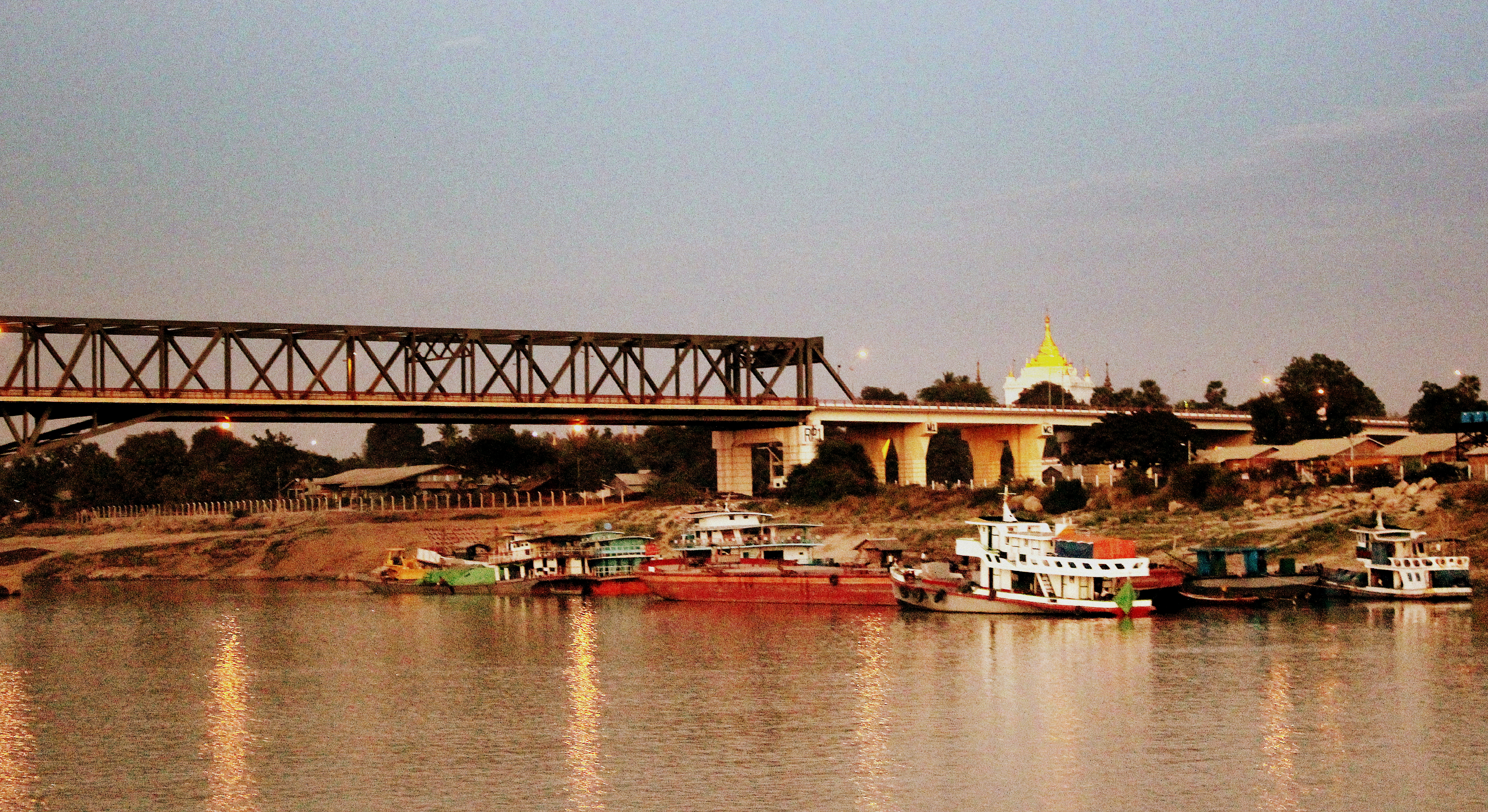 RIVER FERRY JOURNEY FROM BAGAN TO MANDALAY ON THE IRRAWADDY RIVER MYANMAR FEB 2013